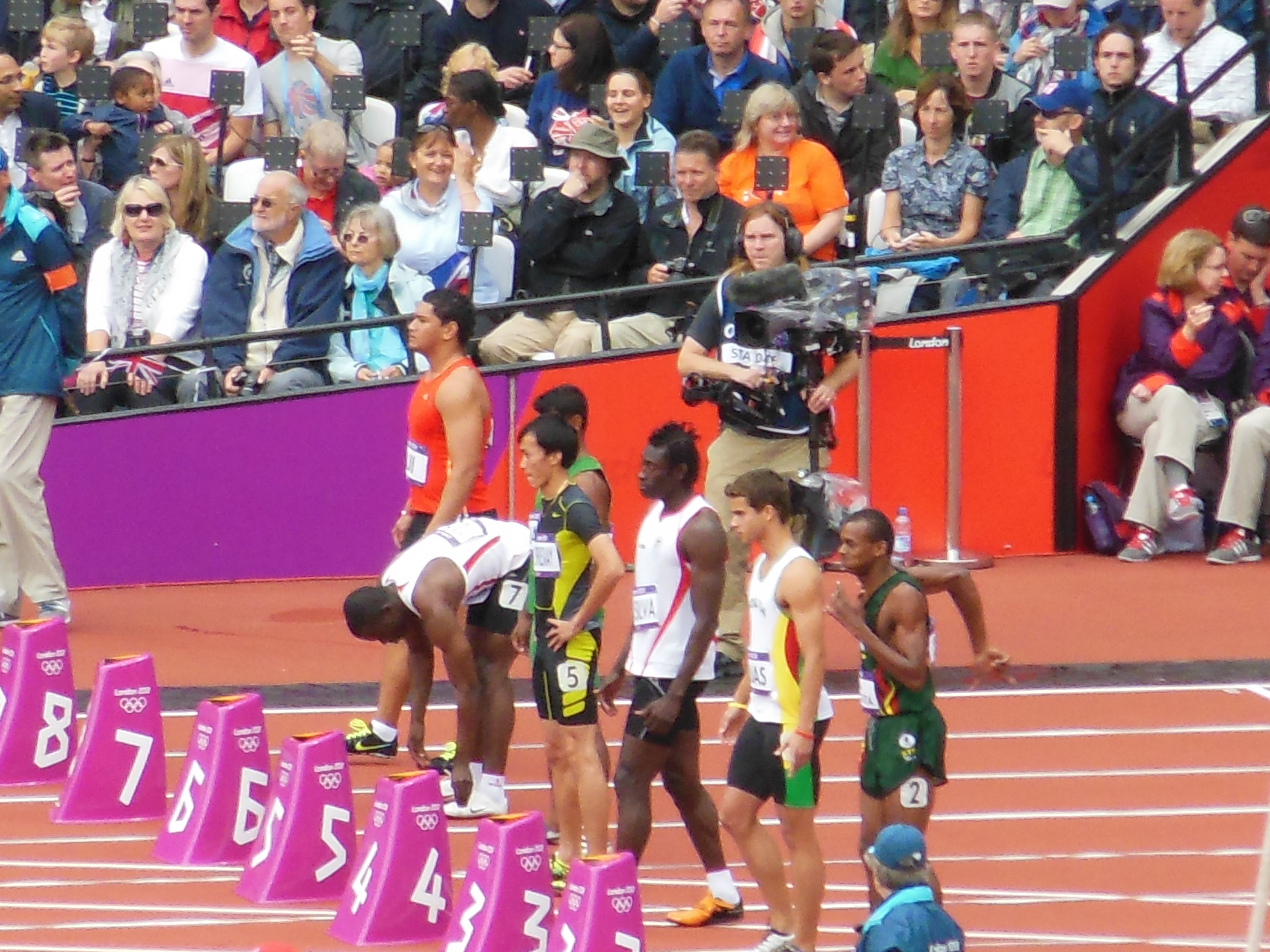 Athletics at the 2012 Summer Olympics – Men's 100 metres, Preliminaries heat 1: Lane 2, dark green: Christopher Lima da Costa (São Tomé and Príncipe). Lane 3, white shirt: Artur Bruno Rojas (Bolivia). Lane 4, white shirt: Holder da Silva (Guinea-Bissau). Lane 5, black/yellow: Kilakone Siphonexay (Laos). Lane 6, green shirt: Mohan Khan (Bangladesh). Lane 7, white shirt: Devilert Arsene Kimbembe (Republic of Congo, winner of the heat). Lane 8, red shirt: Joseph Andy Lui (Tonga).